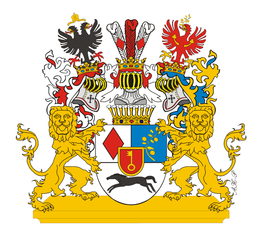 Coat of arms of the counts von Schwerin